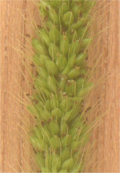 Setaria viridis inflorescense